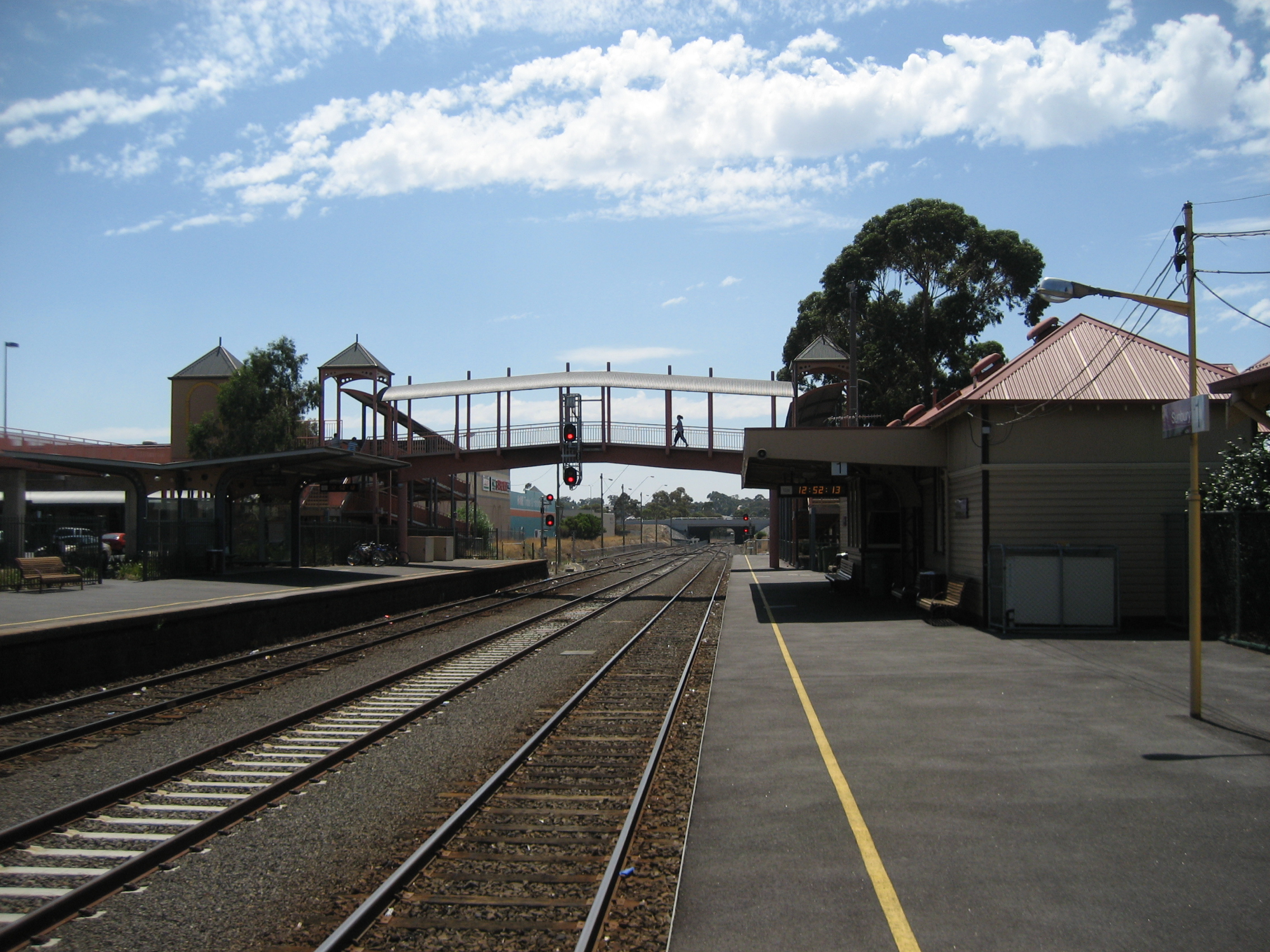 View of Sunbury station